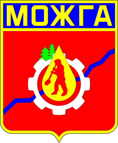 Mozhga (Udmurtia), coat of arms (1980)